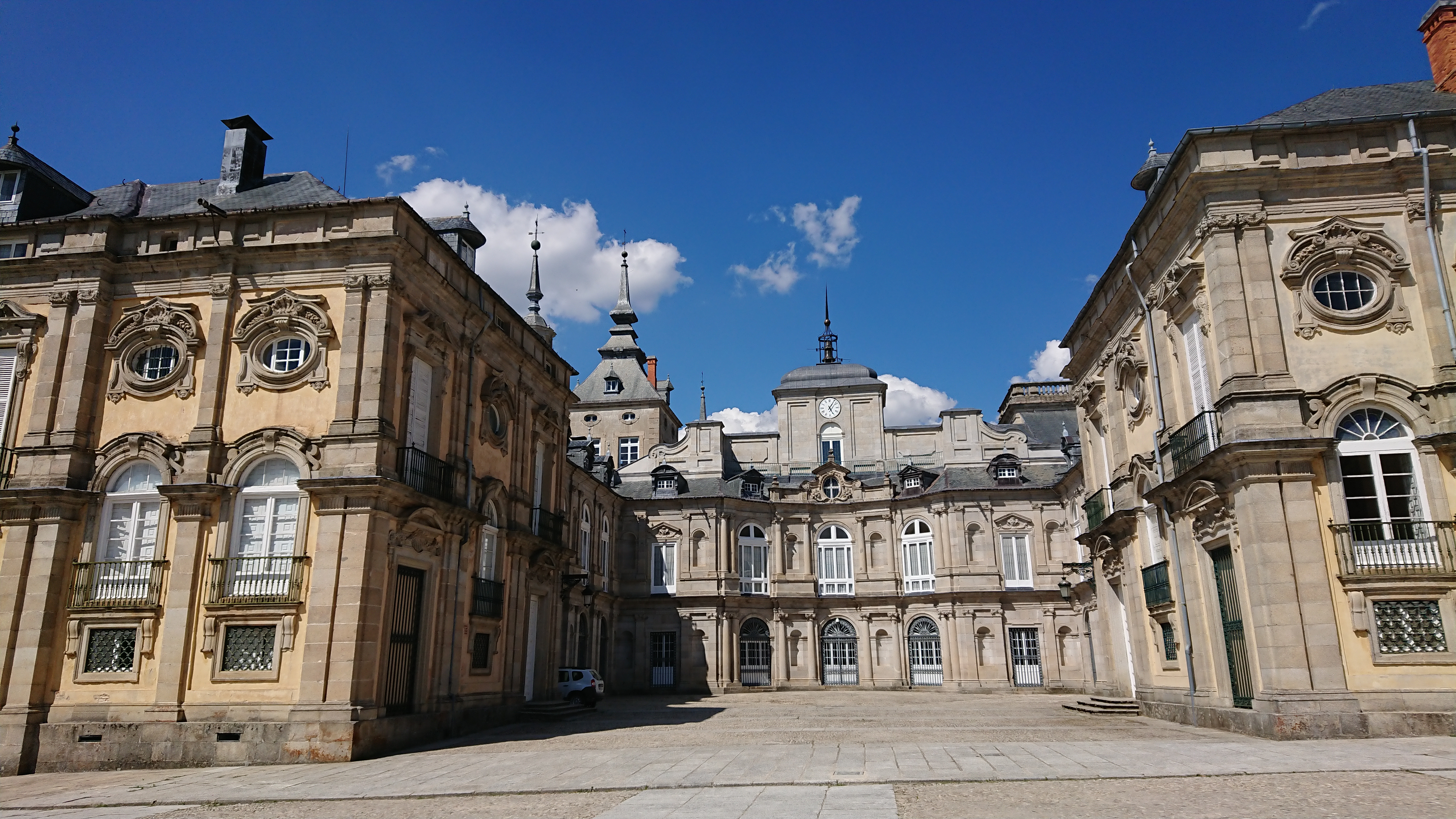 Patio de la Herradura courtyard, La Granja de San Ildefonso (Spain)